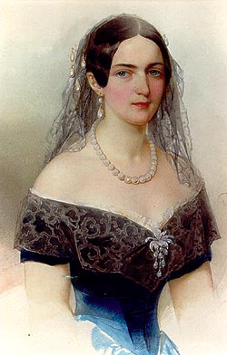 Portrait Aurora Demidova